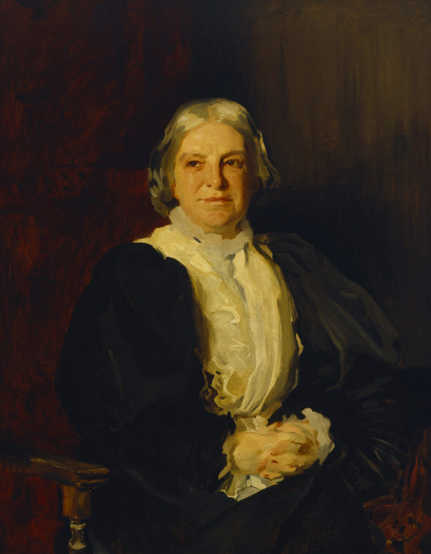 A 1920-21 portrait of Octavia Hill (3 December 1838 – 13 August 1912), an English social reformer, who helped improve the welfare of nineteenth century city inhabitants, particularly in London. The painting is based on an 1898 original portrait by John Singer Sargent.